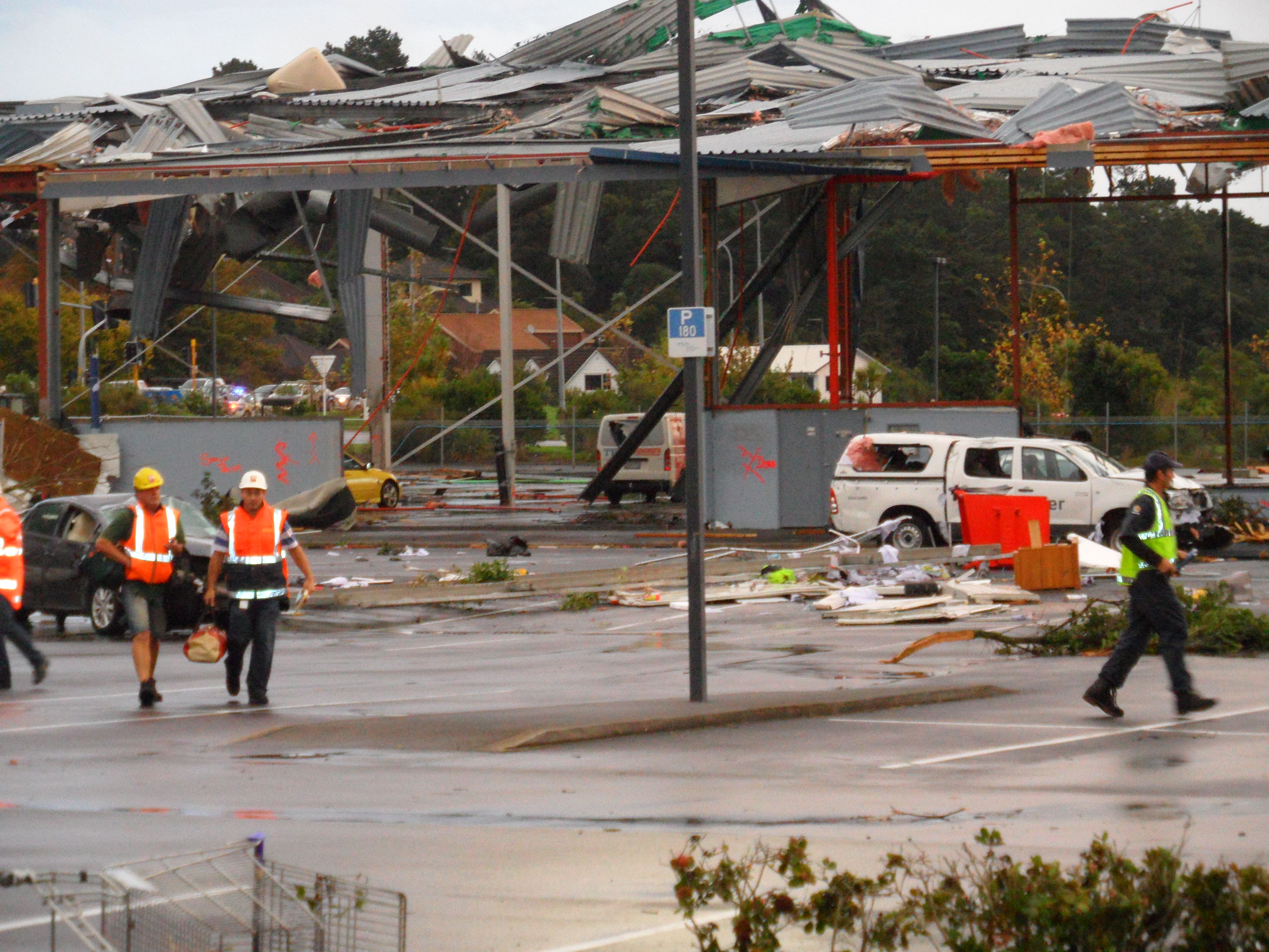 Image from the aftermath of the 3 May 2011 tornado in Albany.